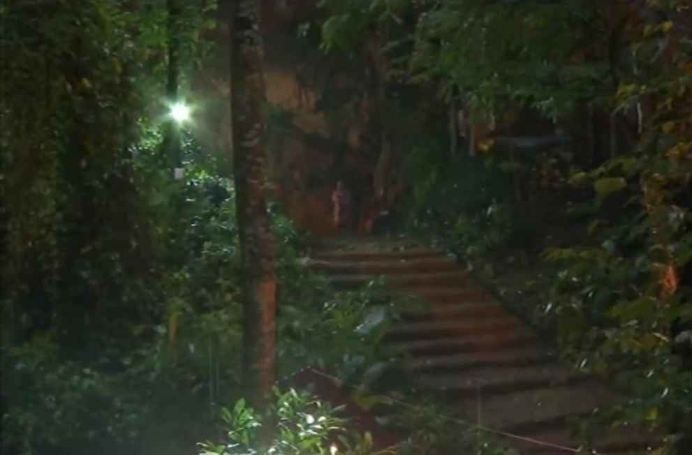 The entrance to Tham Luang cave is seen during heavy rains that hampered rescue efforts due to floodwaters inside the cave, around 26 June 2018.